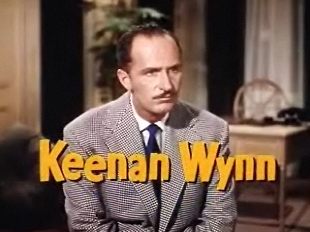 Screenshot of Keenan Wynn from the trailer for the film Tennessee Champ